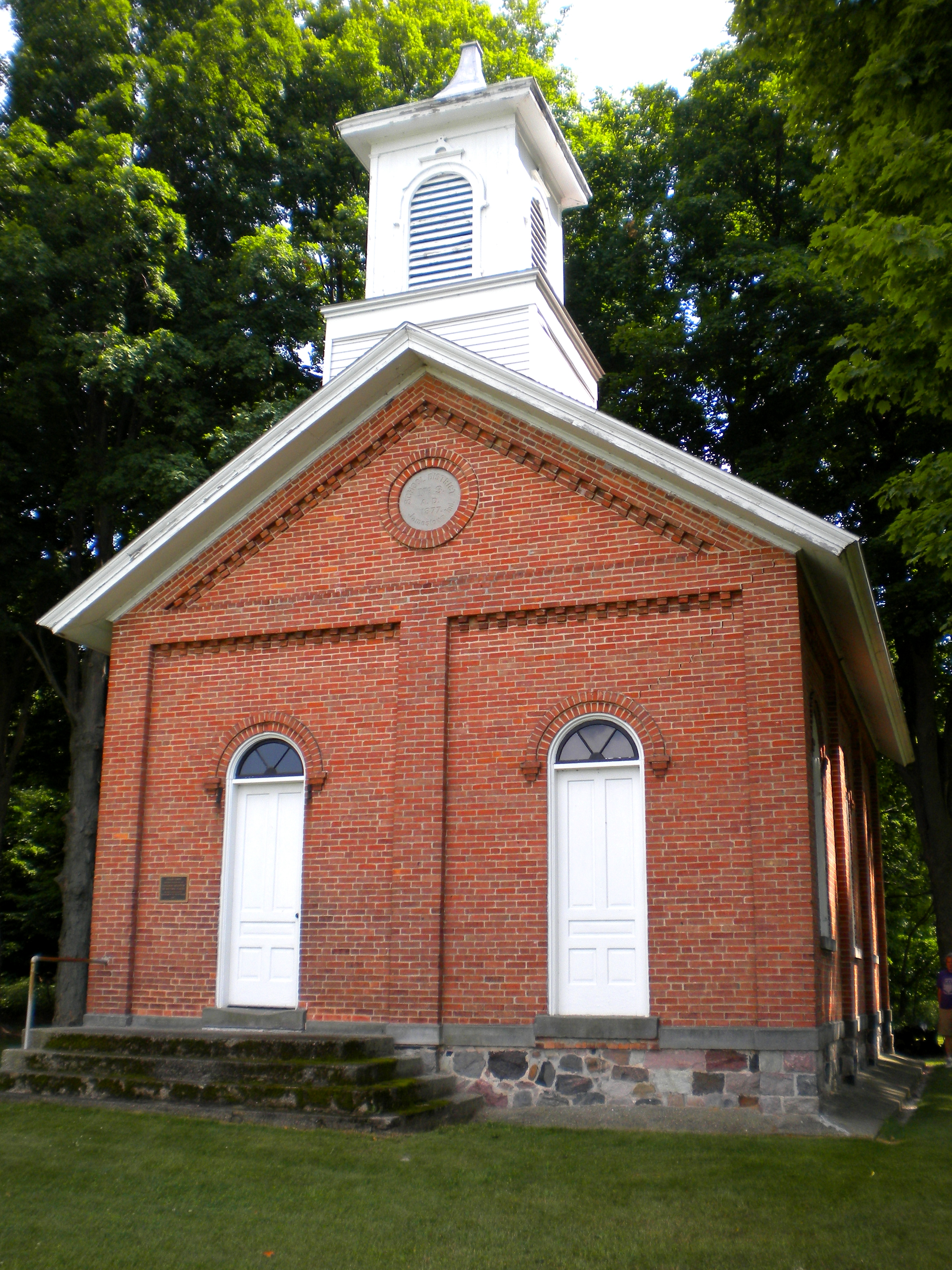 The front of the Collins School, in rural Steuben County, Indiana, USA. This one-room schoolhouse is on the National Register of Historic Places.